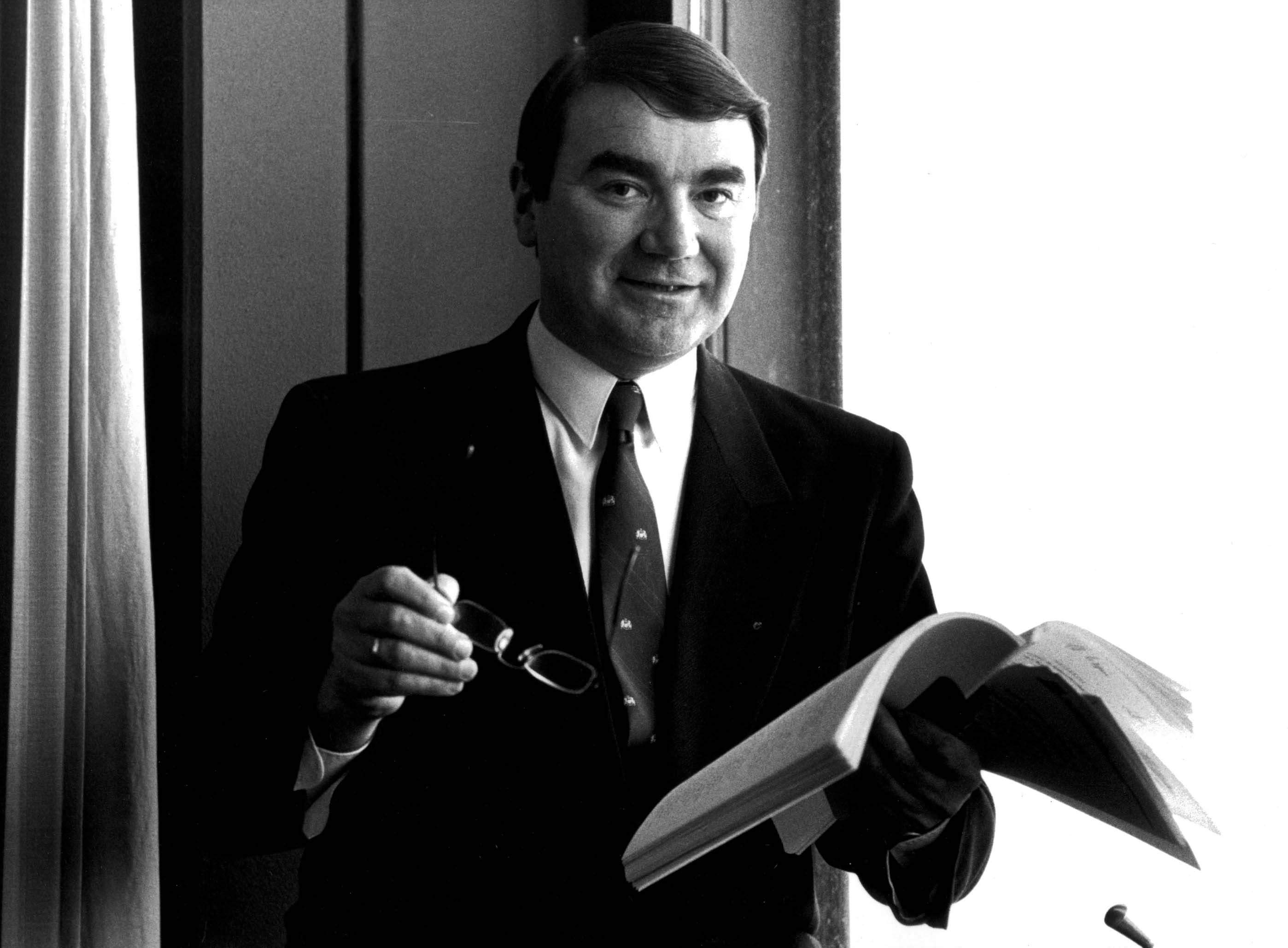 Gerhard Fels reads from the famous 1976' report ("Gutachten zur gesamwtirtschaftlichen Entwicklung") from German "Sachverständigenrat" (so called "5 Weisen") at overgiving/publishing-ceremony.